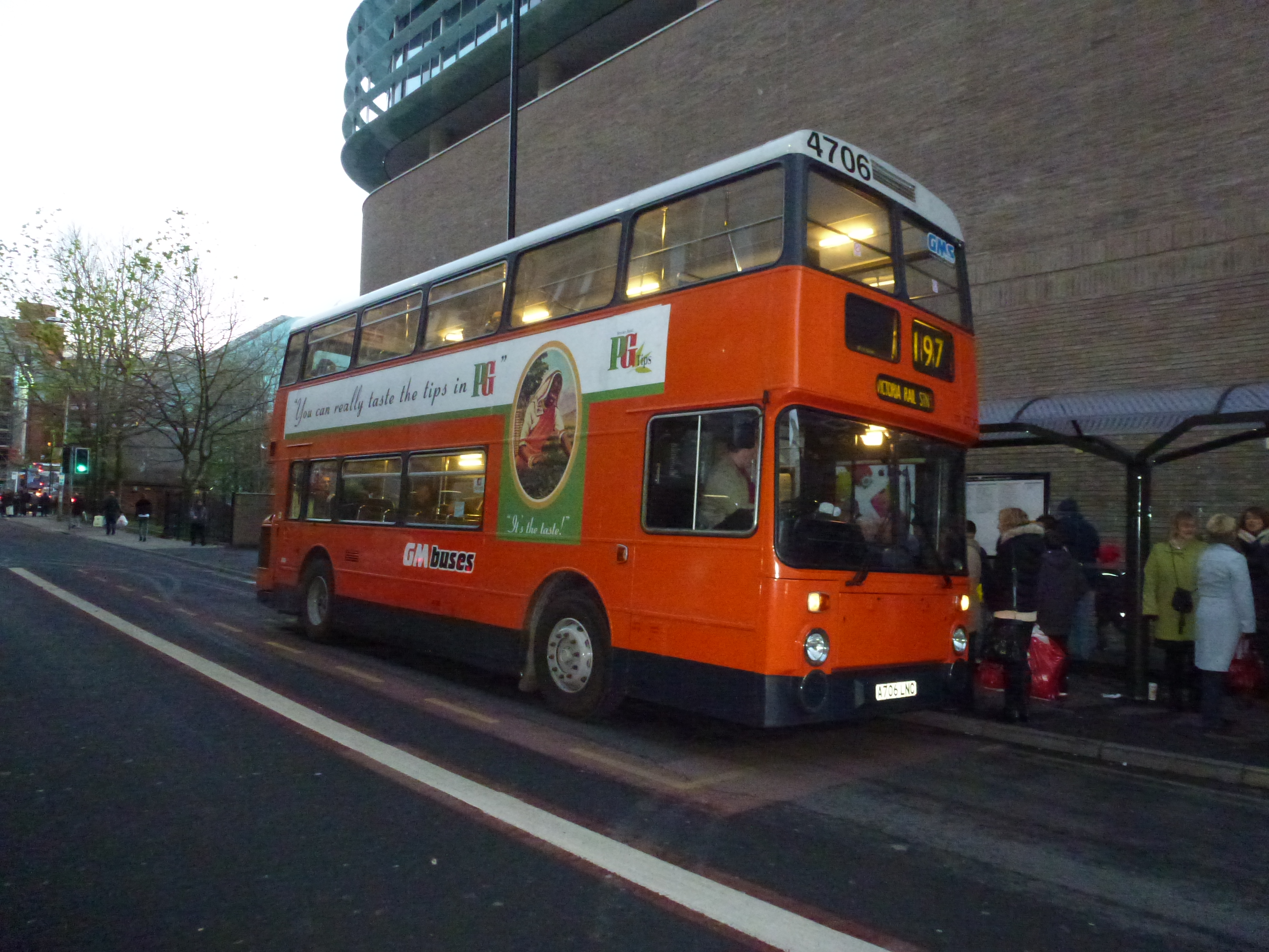 Seen outside Victoria on Saturday 1st December having just come from the Museum of Transport during this year's Xmas Cracker event